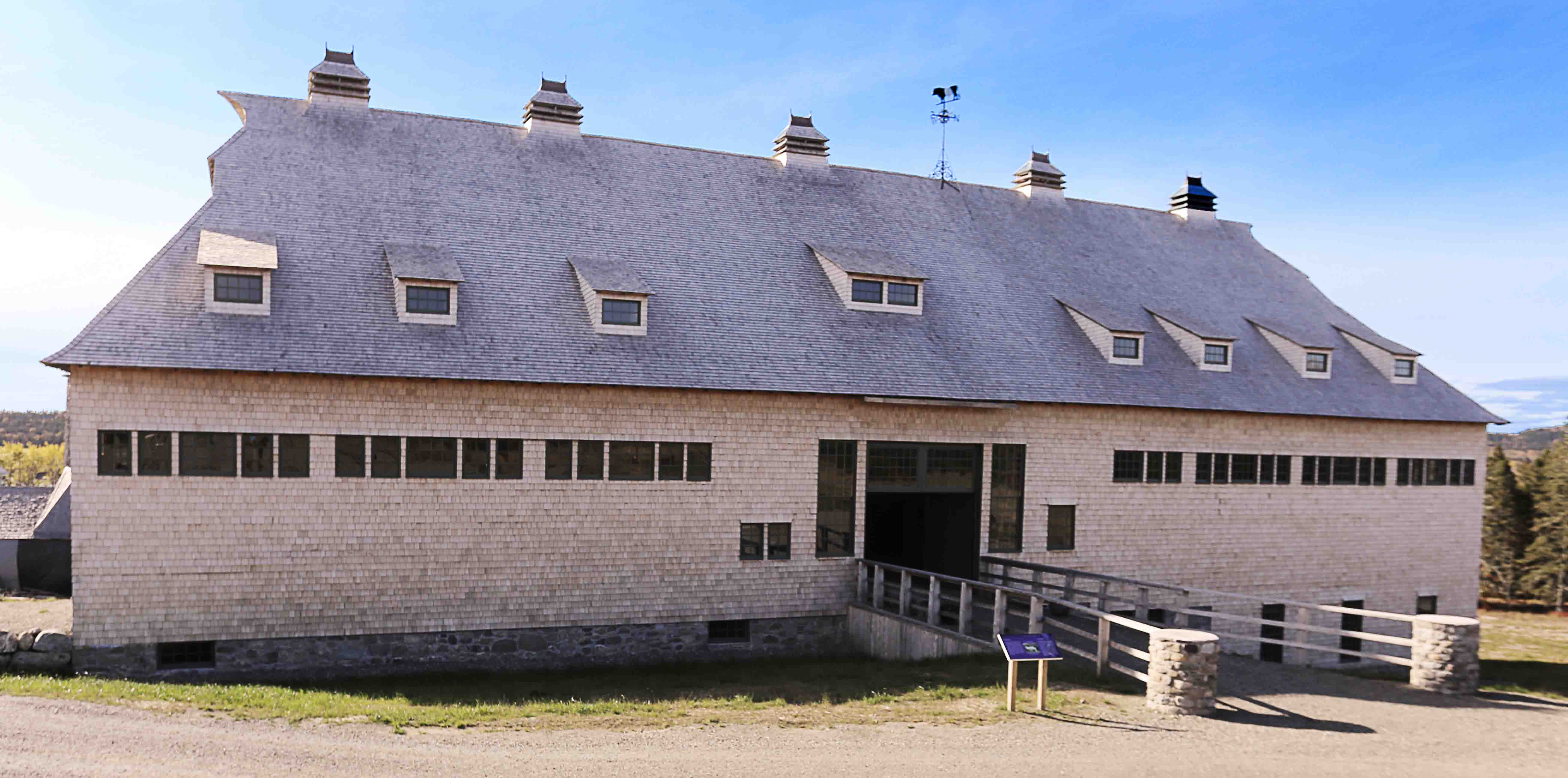 Shows the newly renovated barn 2018